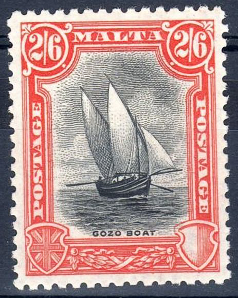 UK/Malta Postage stamp, Gozo sail boat, 1926 issue